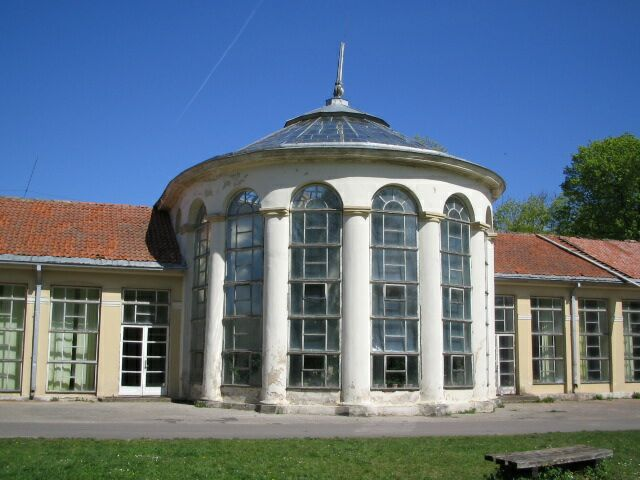 Object 6, castle complex, Raudondvaris (Kaunas district, Lithuania)